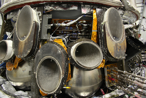 The Draco thrusters.